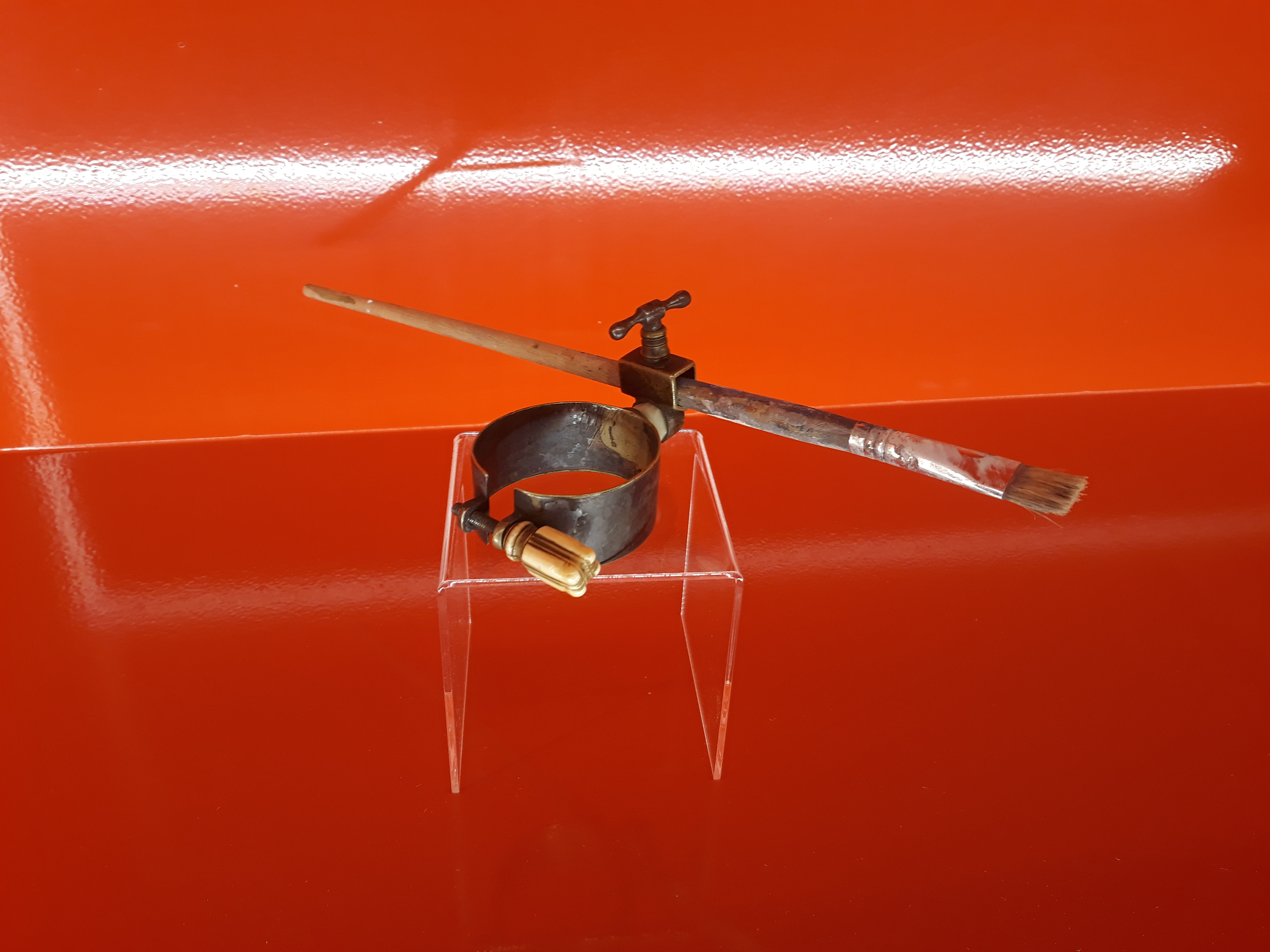 Prosthesis used by painter Ludomir Benedyktowicz, made for him by a blacksmith from Ostrów Mazowiecka. Original, with replica brush. Warsaw Citadel (Cytadela Warszawska) , a 19th-century fortress in Warsaw, Poland.